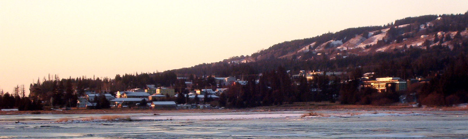 Old town section of Homer seen from Beluga Slough